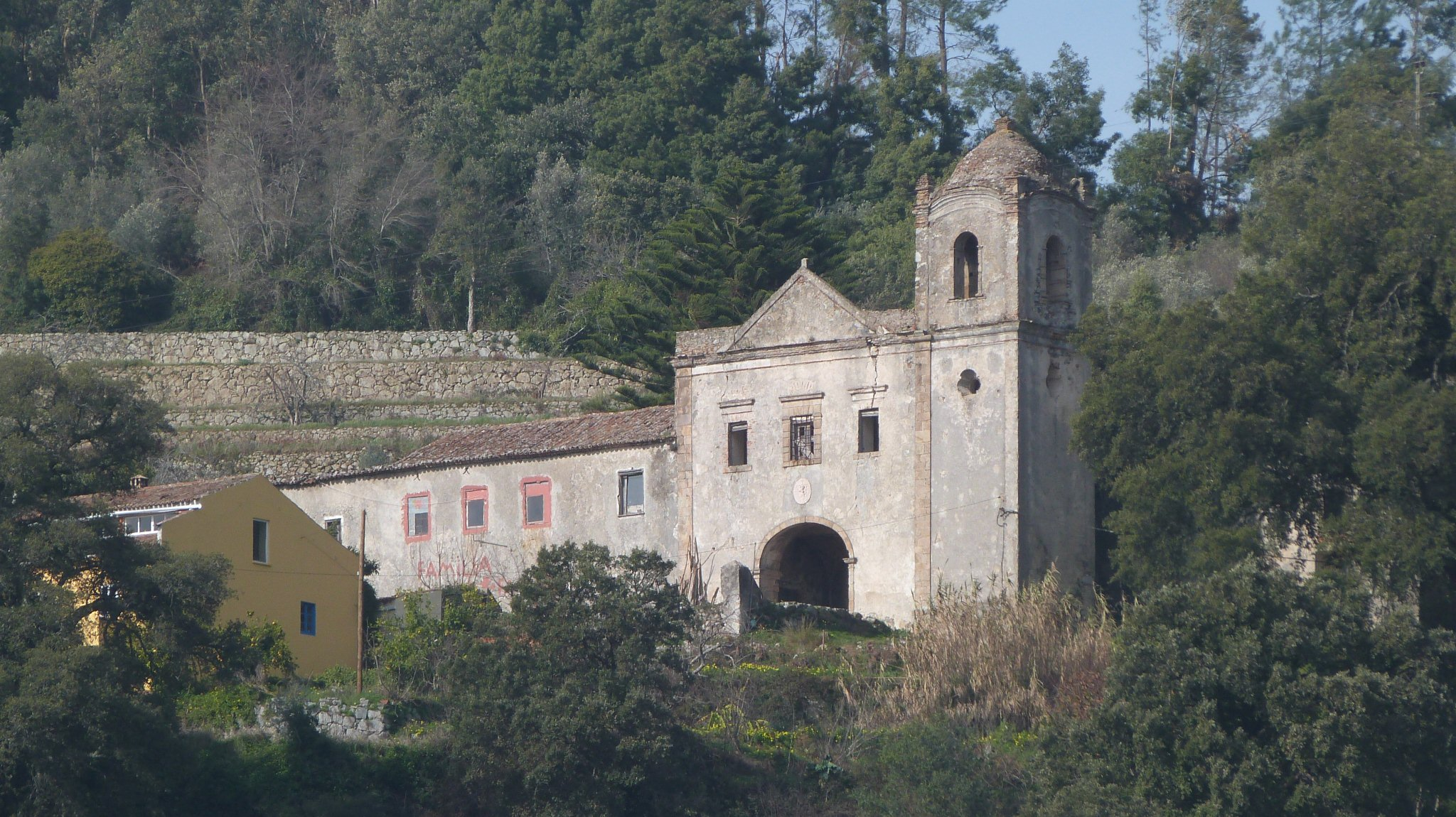 Convent of Nossa Senhora do Desterro founded in 1631 by Pero da Silva. The Convent of our lady in exile is currently in a dilapidated state with trees growing inside, roofs collapsing and chickens and turkeys running around. It desperately needs some love. If you like my photos please help support my hobby and click on my video and watch it.. Many Thanks Peter